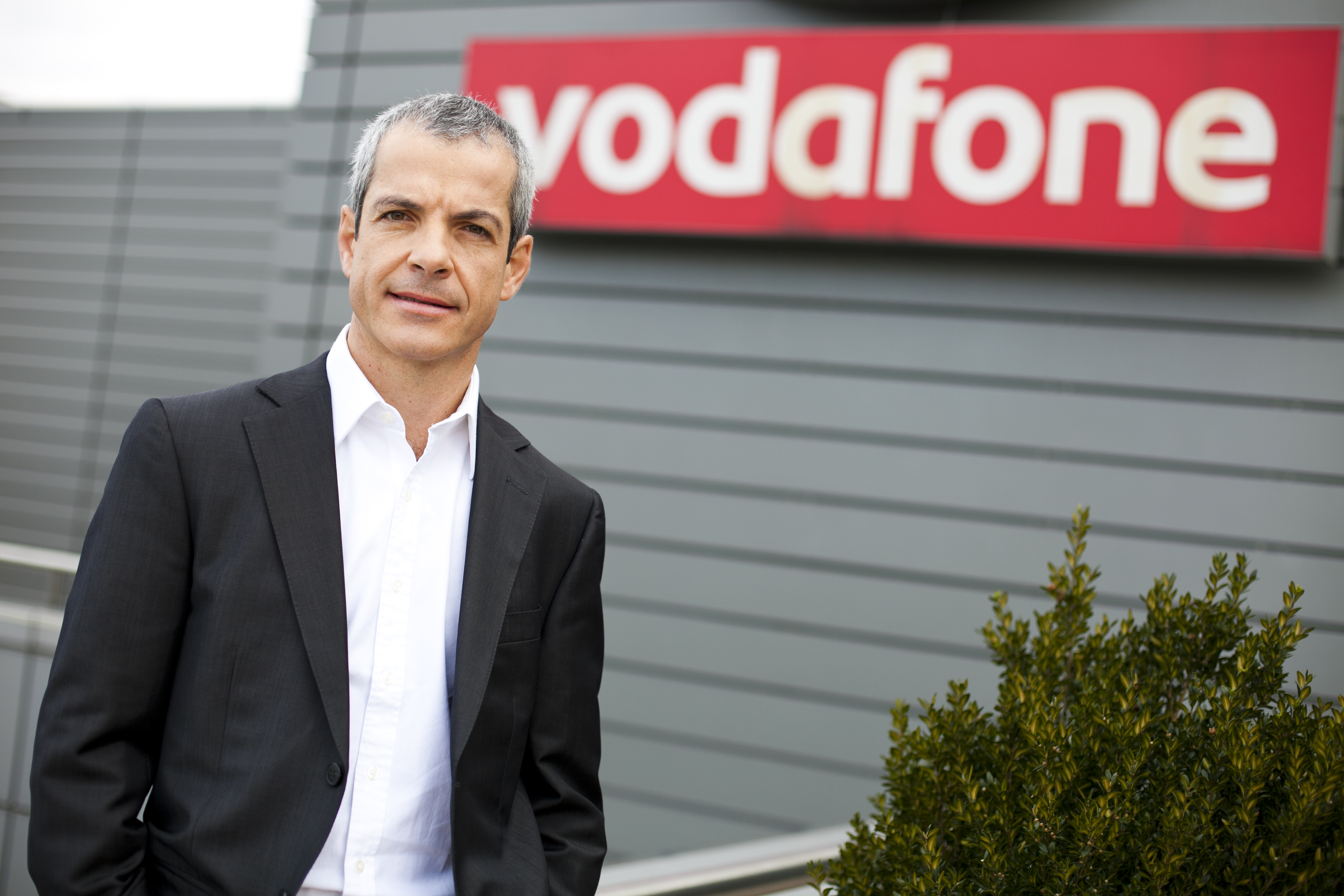 Chief Executive Officer of Vodafone Hungary Mobile Telecommunications Company Limited